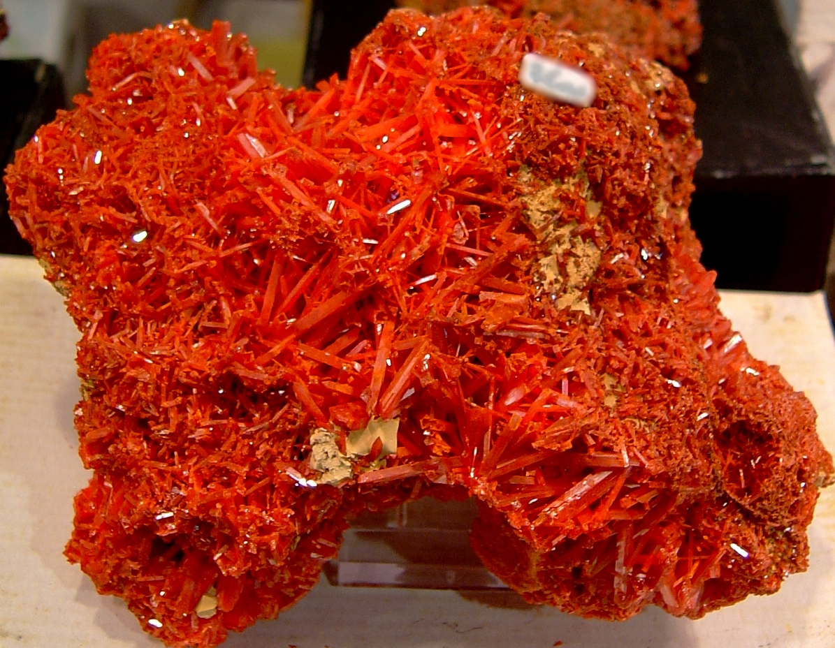 Crocoite (from tasmania) I took this photo in october 2005